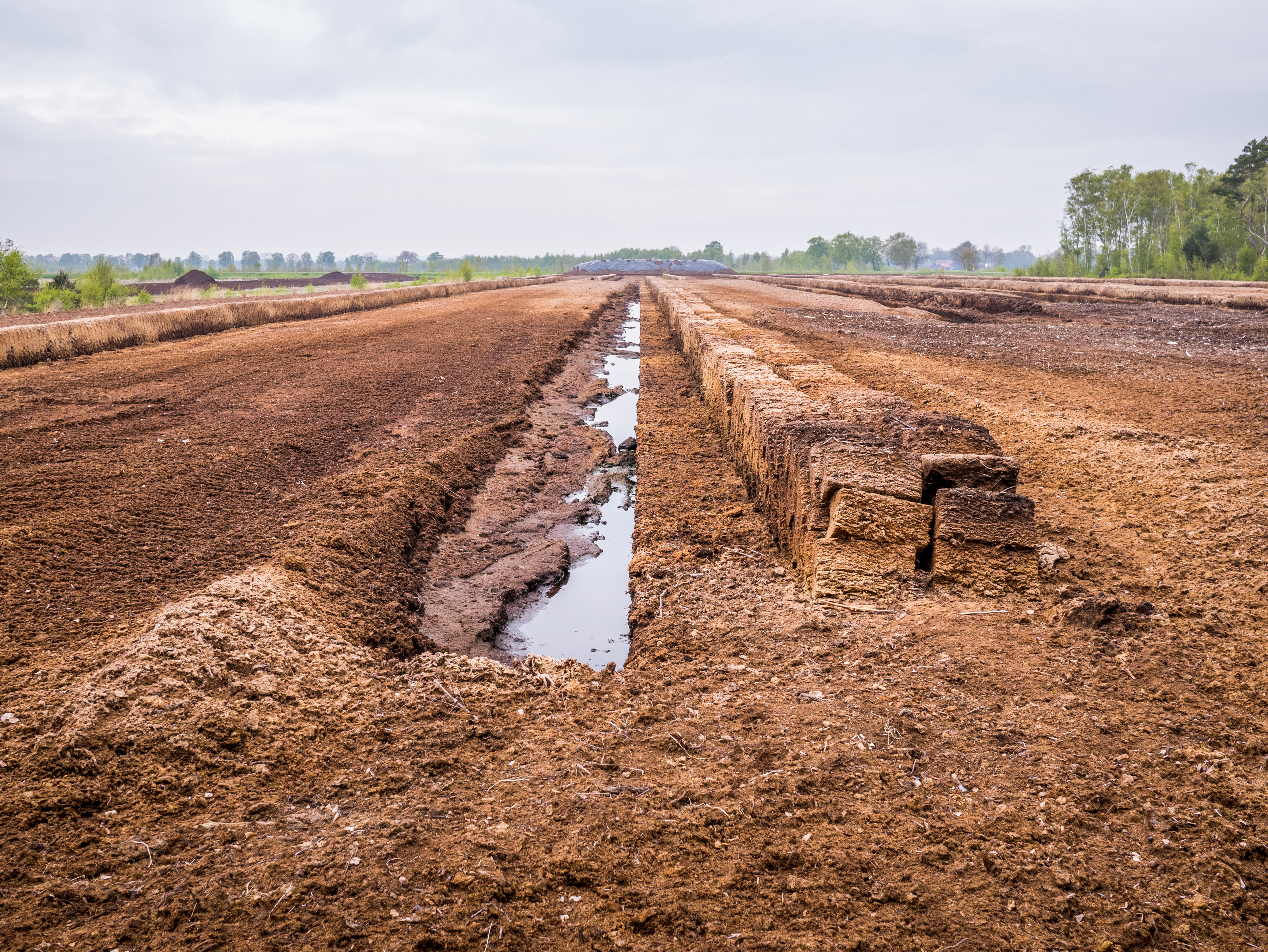 Peat extraction at the Venner Moor bog. Venne, Ostercappeln, Lower Saxony, Germany